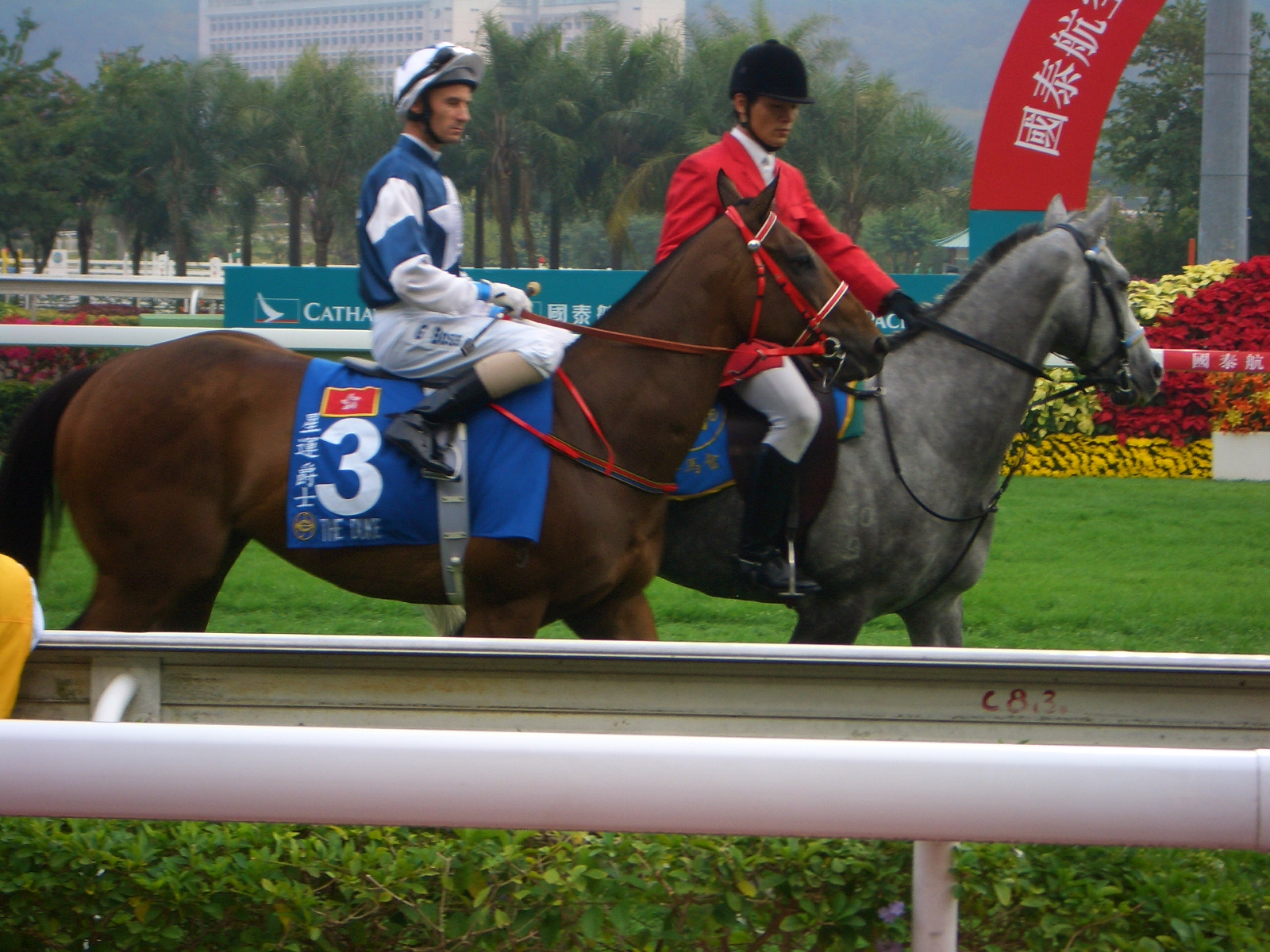 The Duke (Chinese:星運爵士) for last start of 2007 Hong Kong Mile.